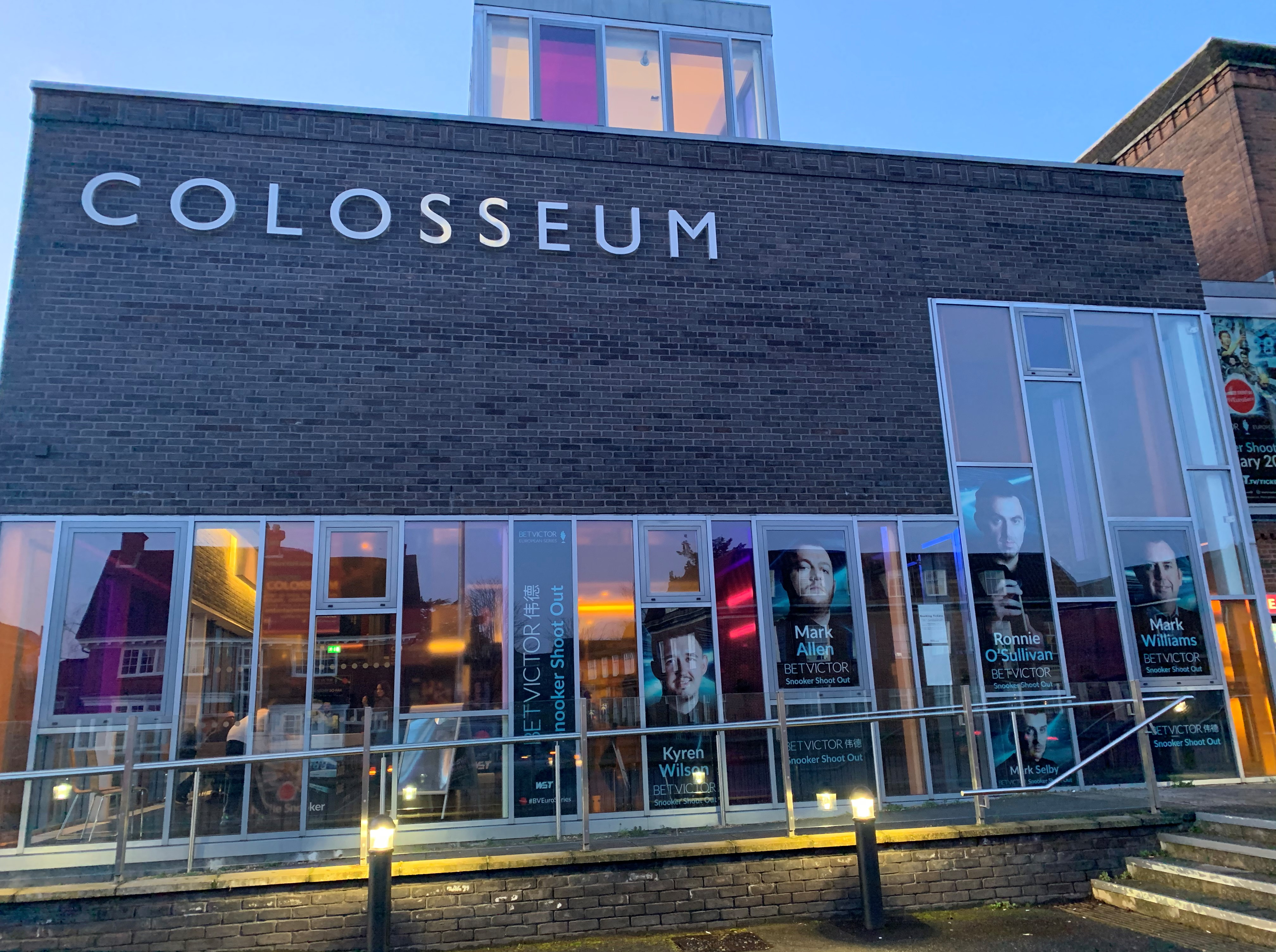 Watford Colosseum in February 2020, venue for the 2020 Snooker Shoot Out